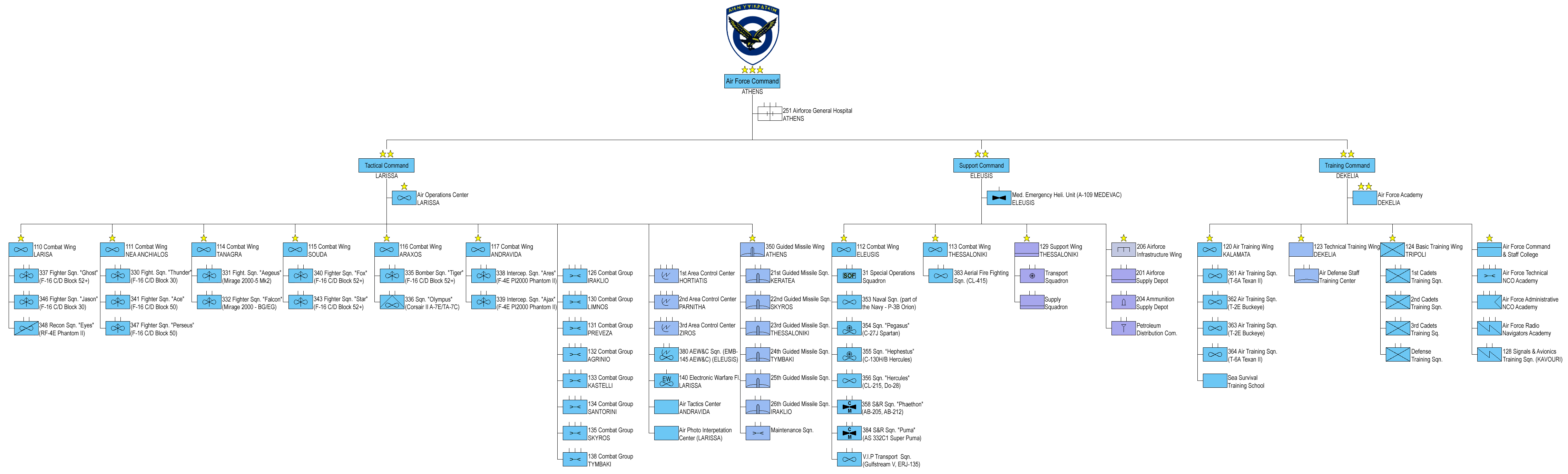 Hellenic Air Force Structure, December 2008